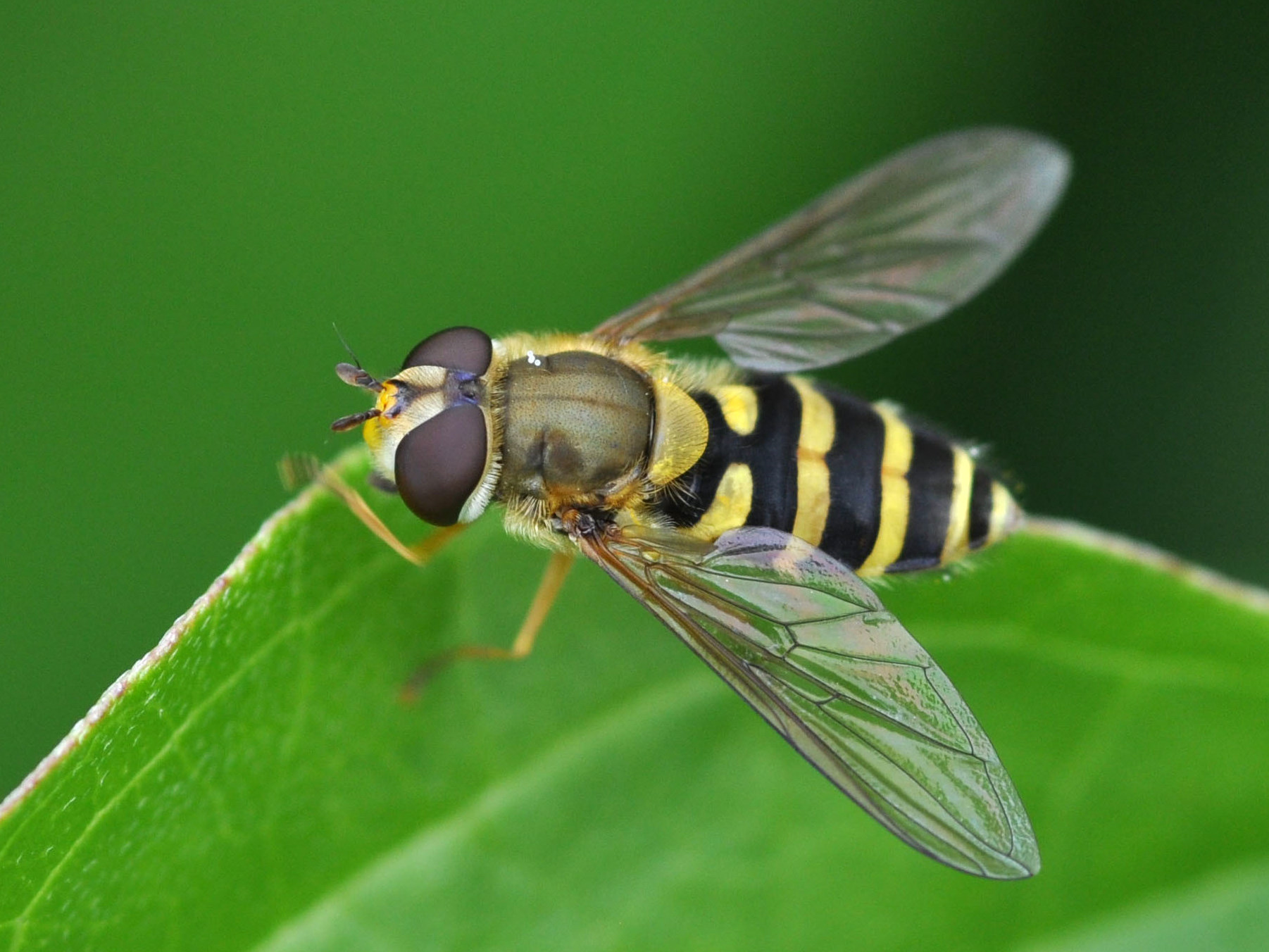 Hoverfly Syrphus ribesii in Bahrenfeld, Hamburg.